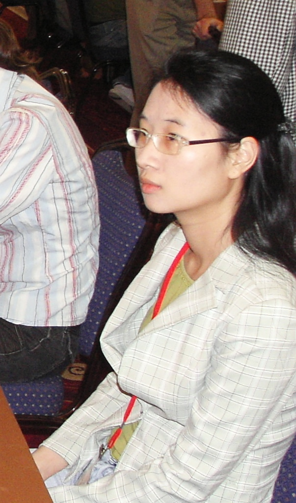 GM Hoang Thanh Trang (Hungary), Heraklion 2007